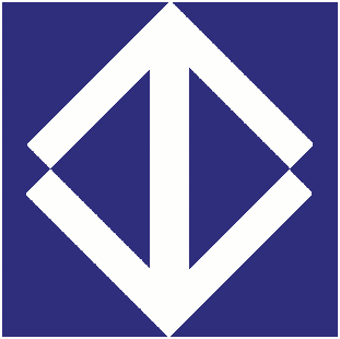 São Paulo Metro logo